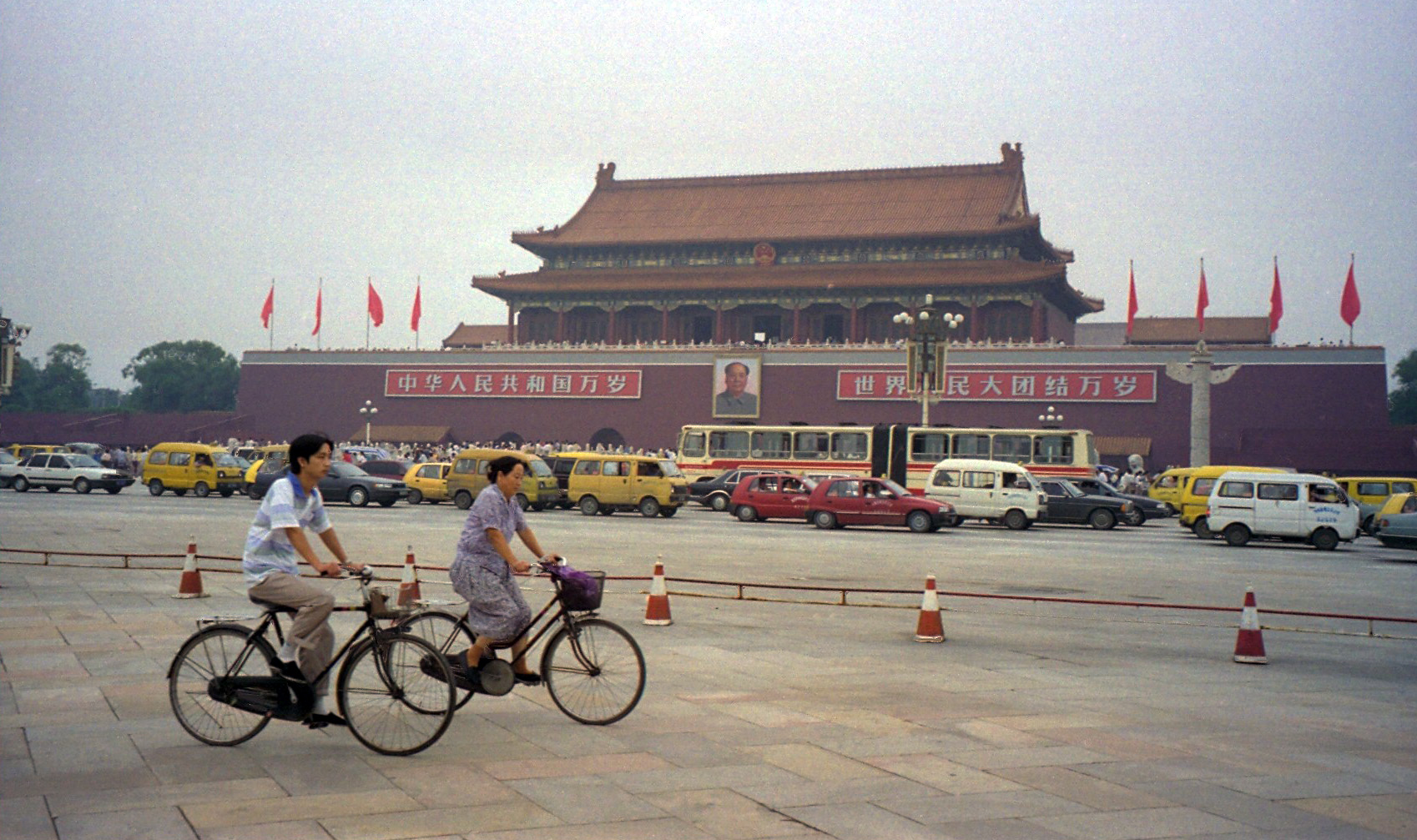 The Tiananmen, the “Gate of Heavenly Peace” which leads to the Forbidden City, forms the northern boundary of Tiananmen Square. The gate was built in the 15th century and restored in the 17th century. On October 1, 1949, Mao Zedong proclaimed the People’s Republic of China here. Tiananmen Square was originally designed and built in 1651. Starting in 1954, it was greatly expanded and altered such that today it can accommodate 600,000 people. The square is largely open with just a few trees and no benches. On Google Earth: Gate of Heavenly Peace 39°54'26.43"N, 116°23'28.44"E